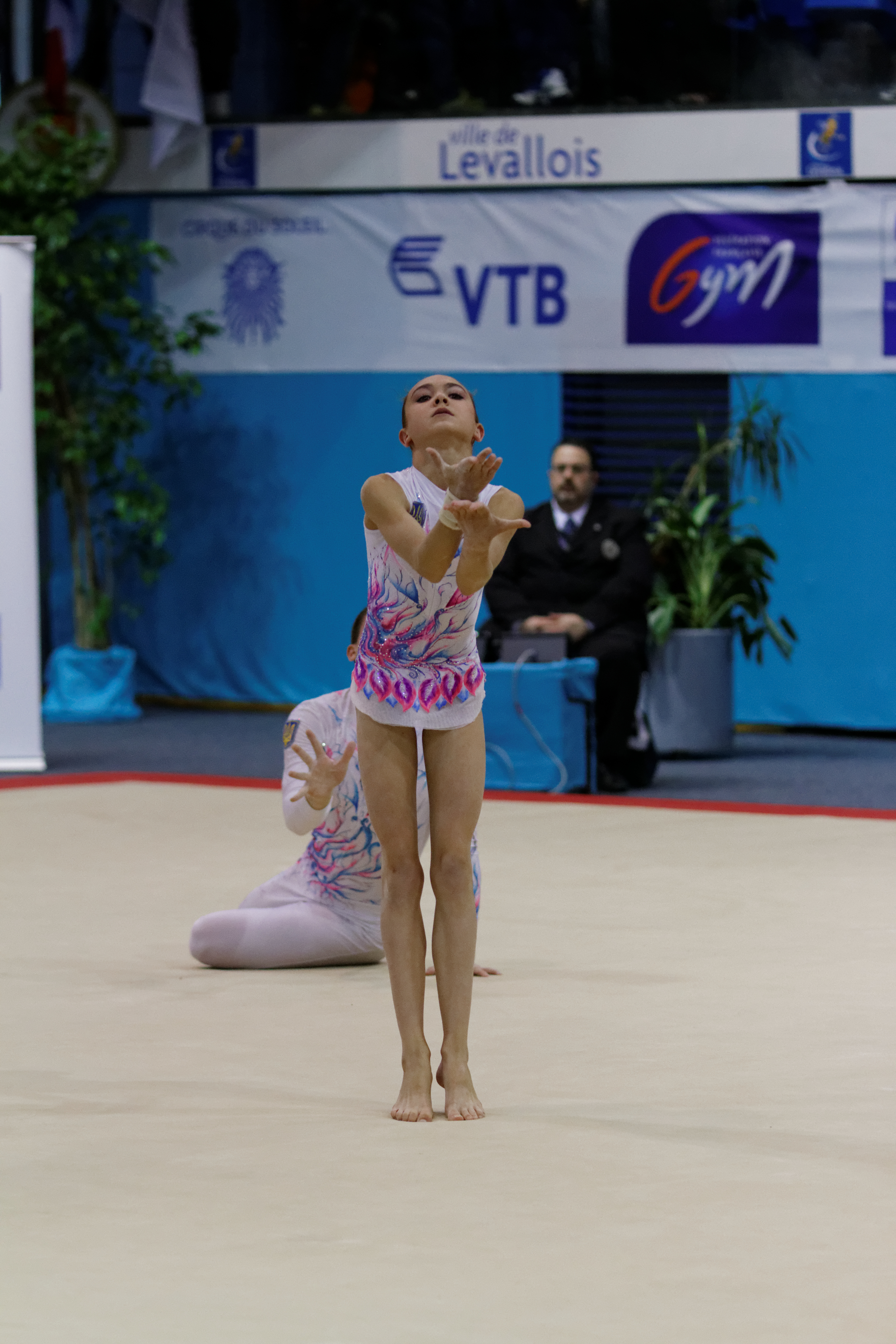 2014 Acrobatic Gymnastics World Championships, 10th-12 July, Levallois-Perret, France. Qualifications: mixed pair. Ukraine.